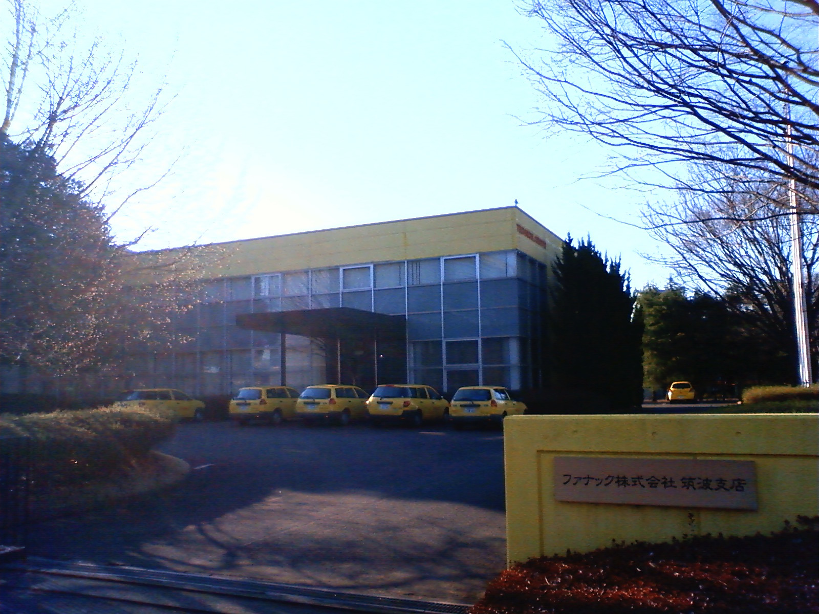 This is the building for FANUC LTD. in Tsukuba, Ibaraki, Japan.